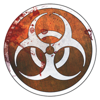 Official Zombie Panic! Source Logo 2017